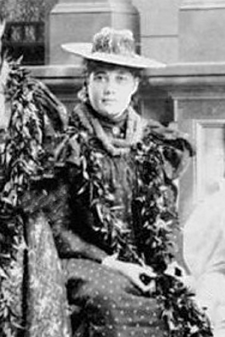 Photograph of (left to right) Princess Kaiulani, Eva Parker, Rose Cleghorn, and Prince David Kawānanakoa at ʻĀinahau.